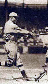 Professional baseball player Rogers Hornsby